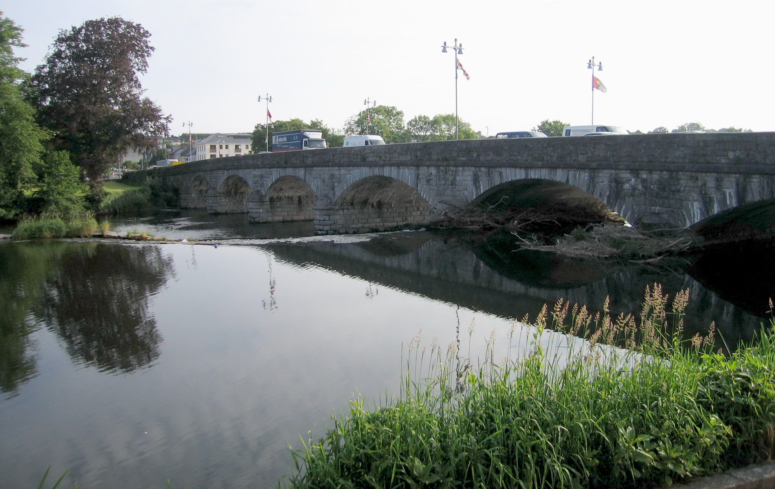 The River Blackwater at Fermoy, Republic of Ireland